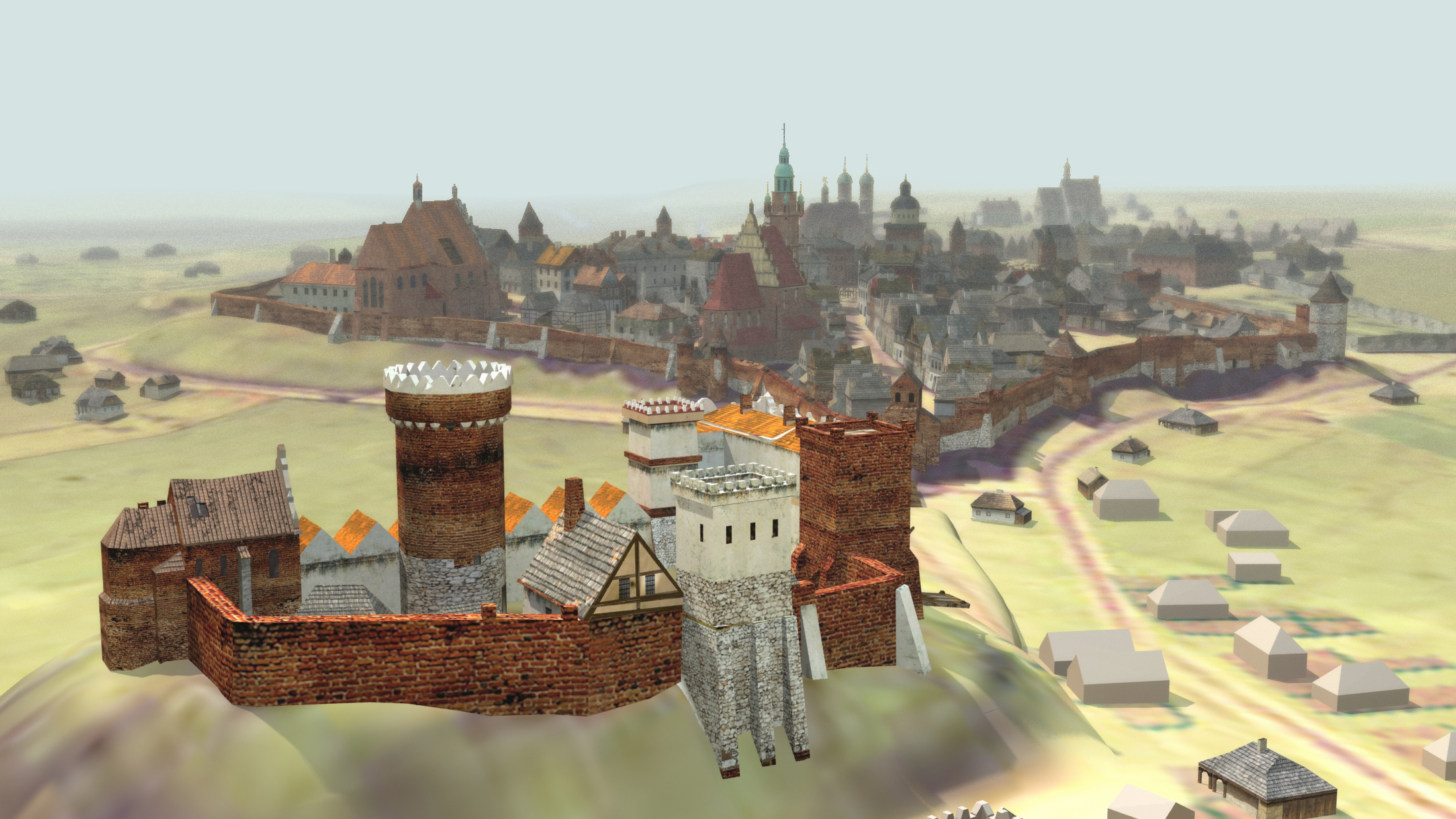 A virtual mock-up, i.e. a 3D city model, of Lublin in the sixteenth century created within the project "Lublin 2.0 - Interactive reconstruction of the history of the city" at the "Grodska Gate - NN Theatre" in 2012.